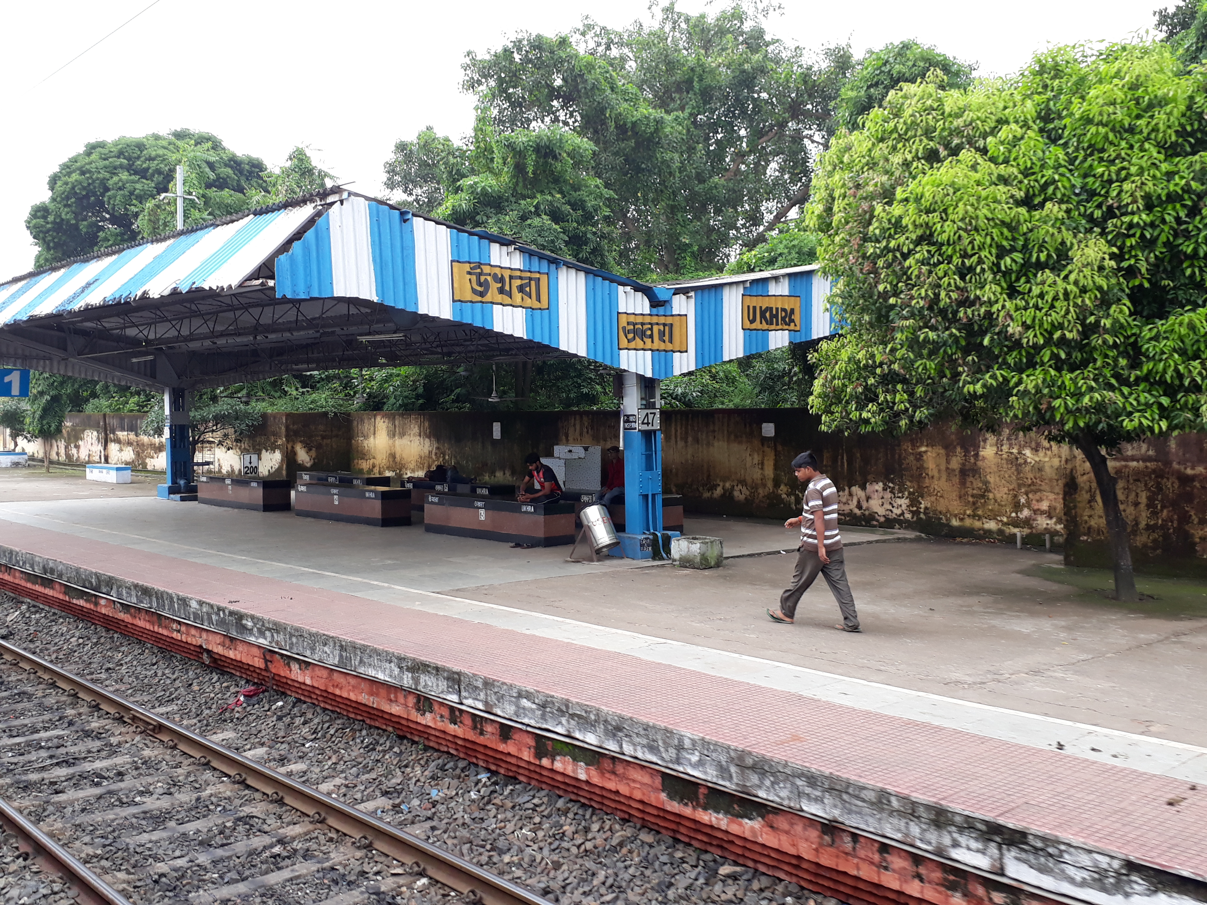 Railway Stations of West Bengal in Sainthia to Andal line.